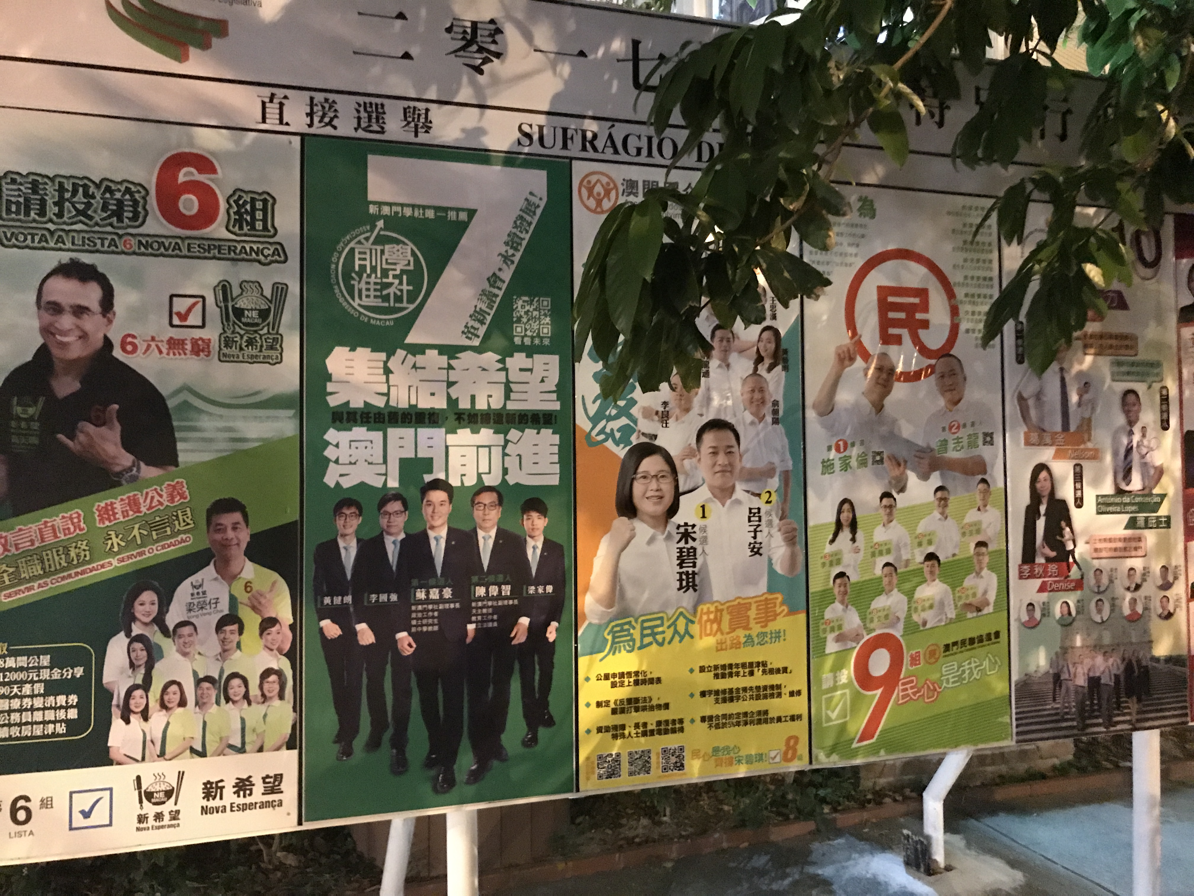 中文（台灣）: Political Organization of the Macau Legislative Election 2017